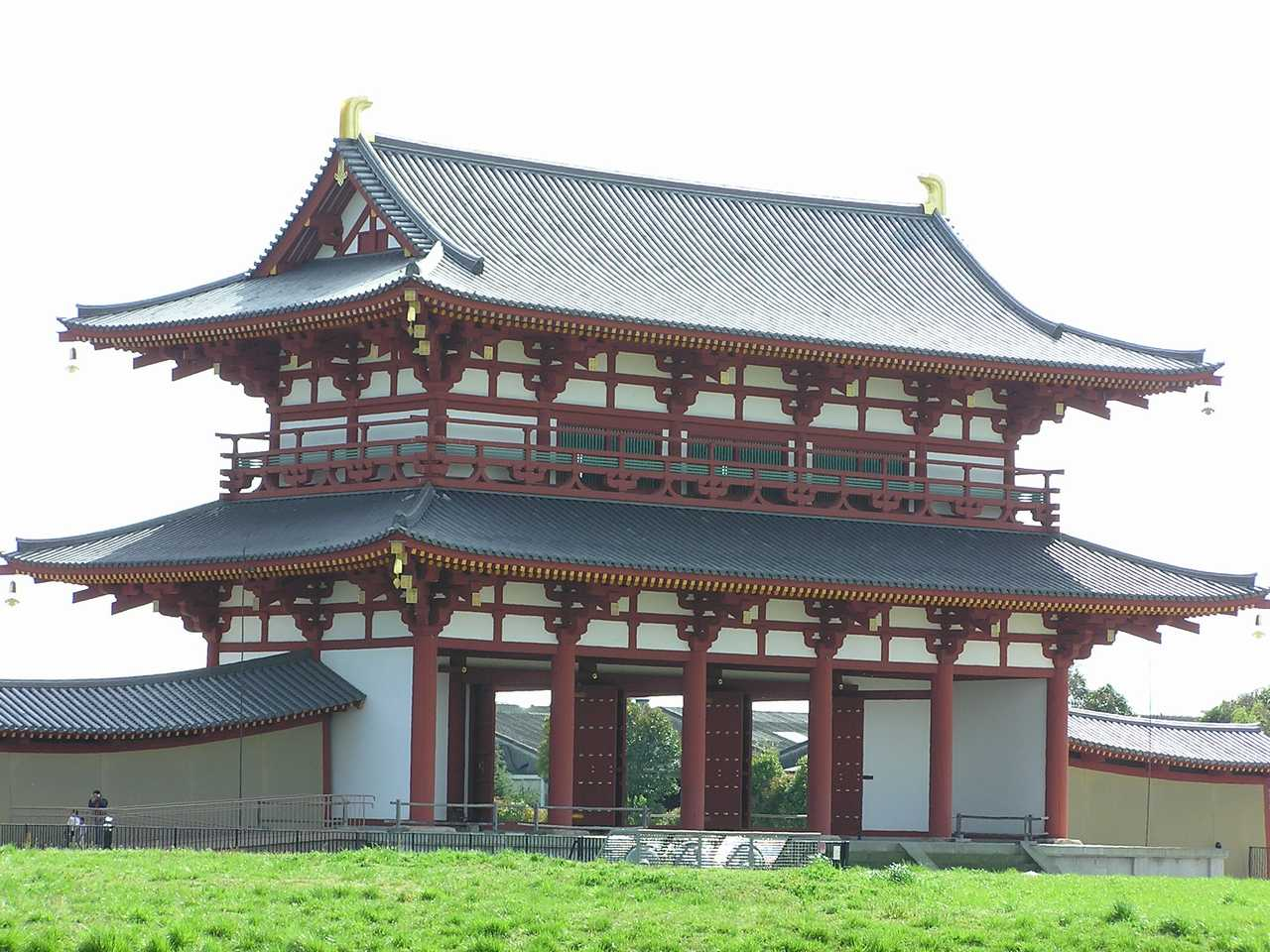 Suzakumon of Heijo Palace, Nara (reconstruction)